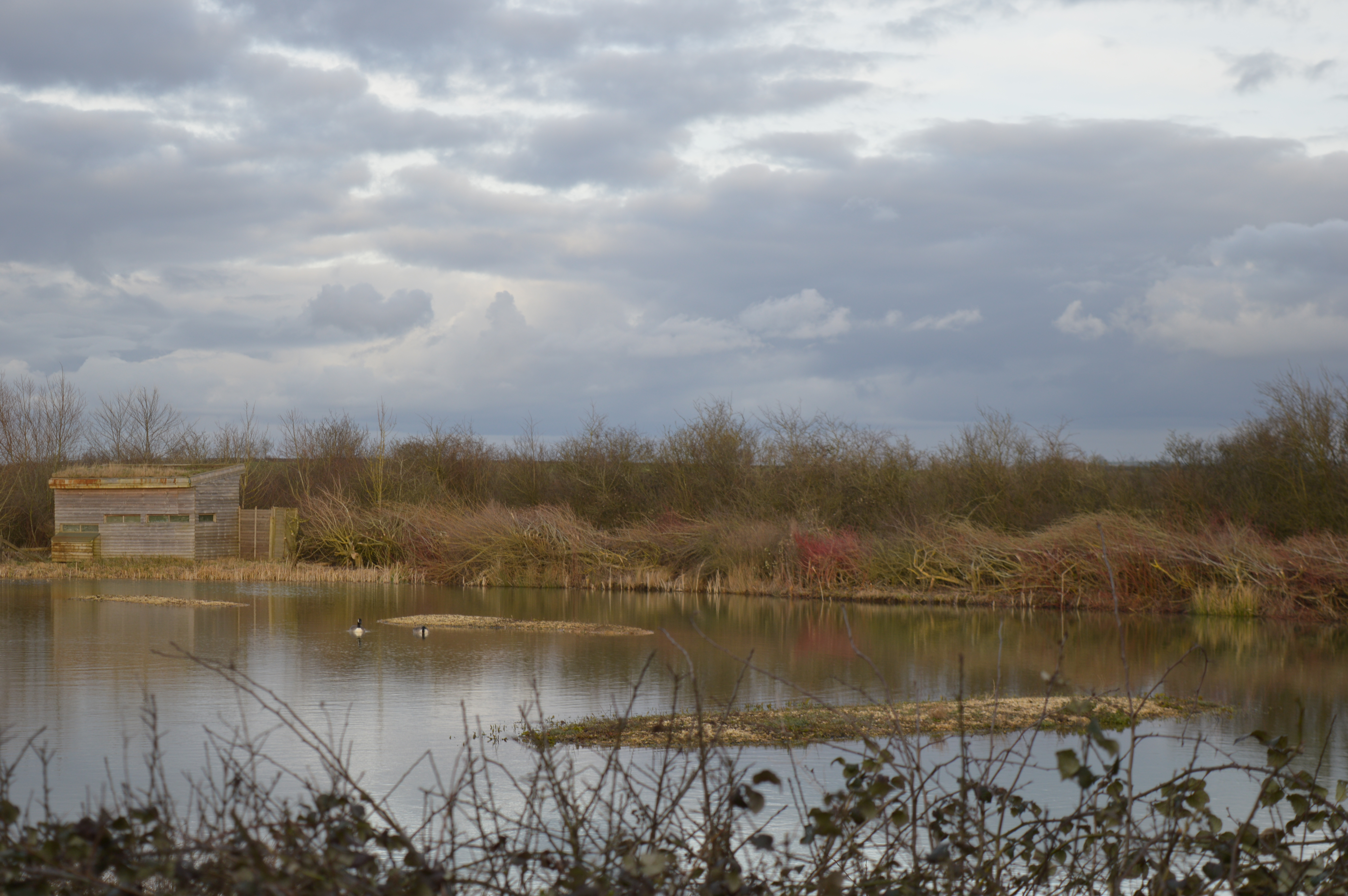 View from bird hide at Gallows Bridge Farm, part of Upper Ray Meadows, a nature reserve near Marsh Gibbon in Buckinghamshire managed by the Berkshire, Buckinghamshire and Oxfordshire Wildlife Trust